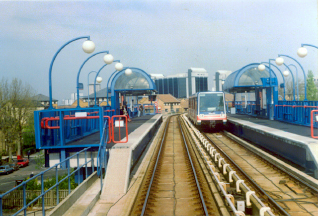 Isle of Dogs. Approaching Mudchute Station on the D.L.R. That's an interesting name for a place, too. Isle of Dogs, I understand, came from the habit of earlier Royalty keeping their doge, especially hunting ones, in the area.